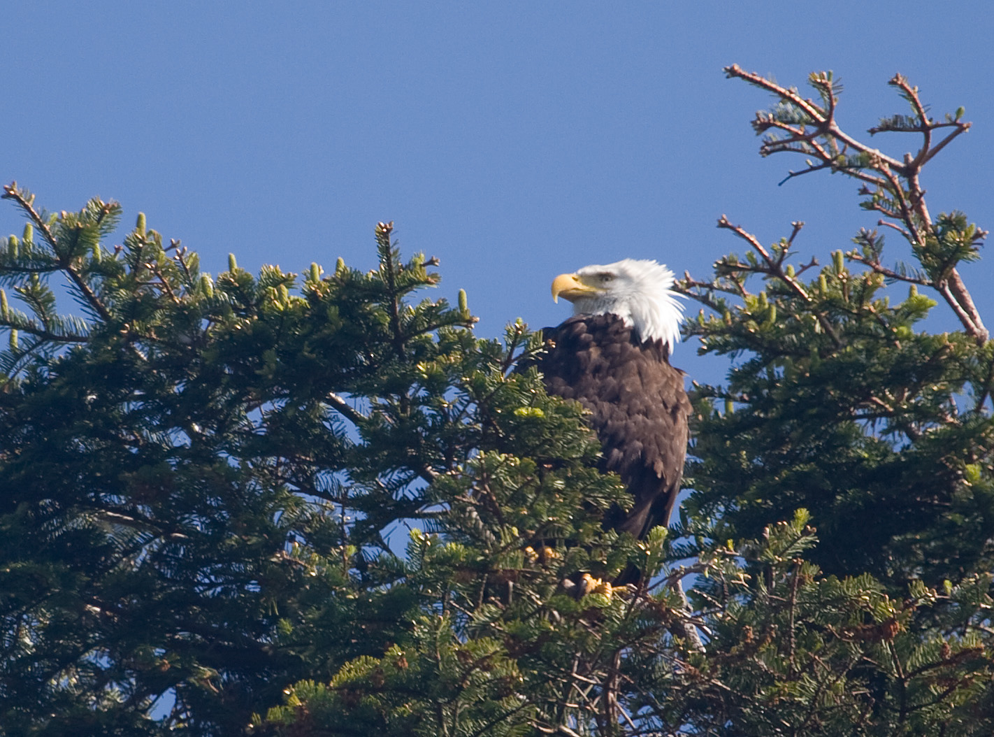 Haliaeetus leucocephalus perched in Abies grandis, Dungeness Spit, Olympic Peninsula, Clallam County, Washington.